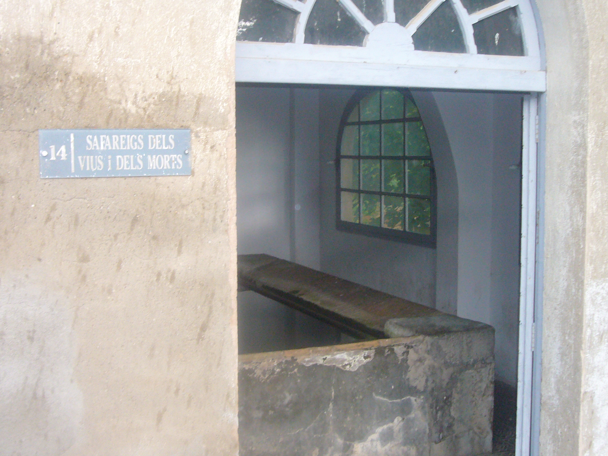 Safareigs dels vius i dels morts (washing room of living and died ones) Colonia Vidal , Puig-reig, Catalonia